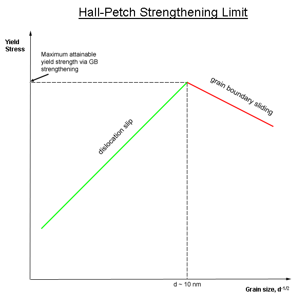 Illustration of the theoretical limit for grain boundary strengthening